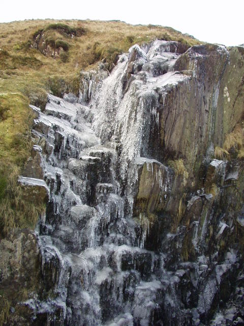 Frozen Waterfall, photo by Shaun Bythell